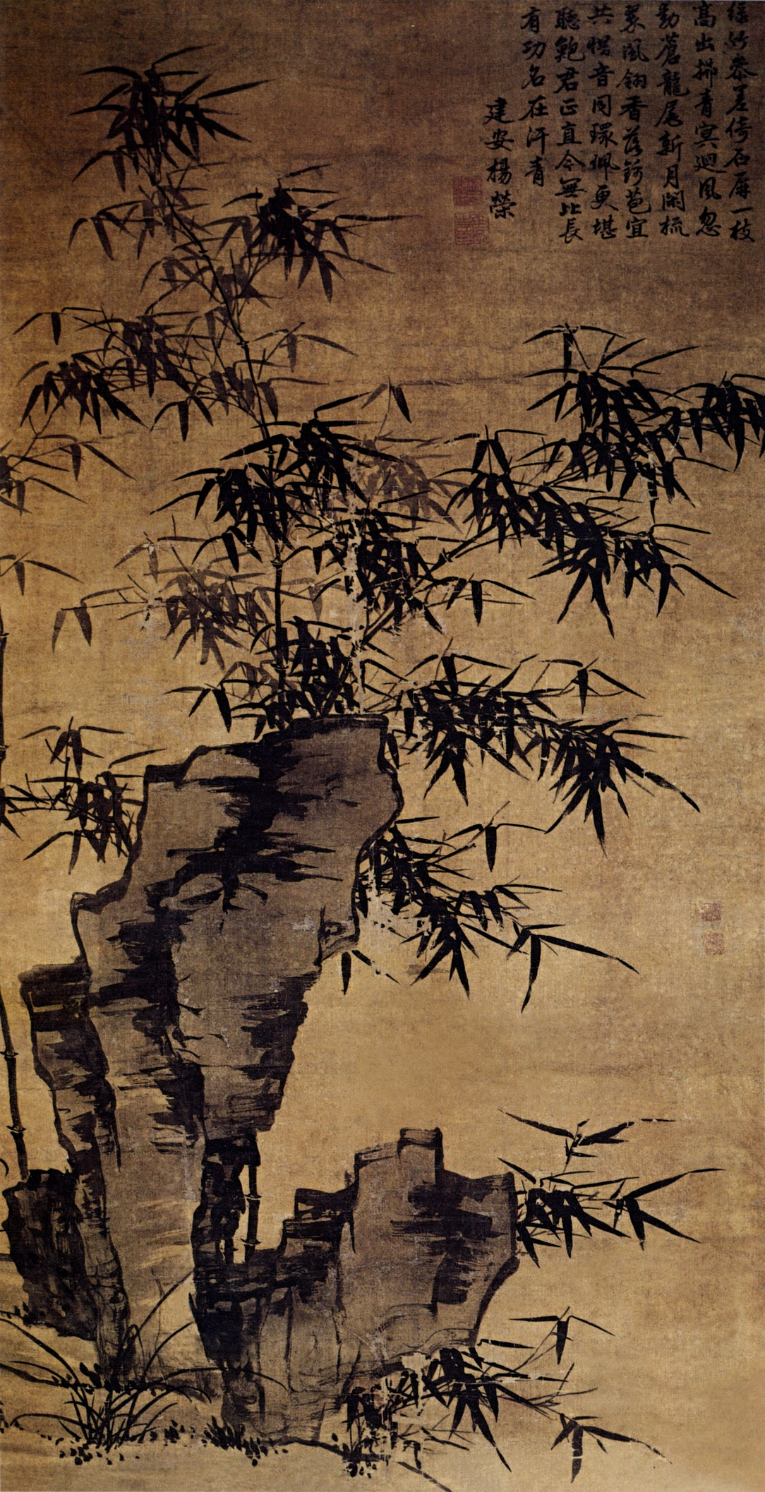 Bamboo and Stone, hanging scroll, ink on silk, 139.3 x 72.4 cm. Located at the Chinese Fine Arts Building.